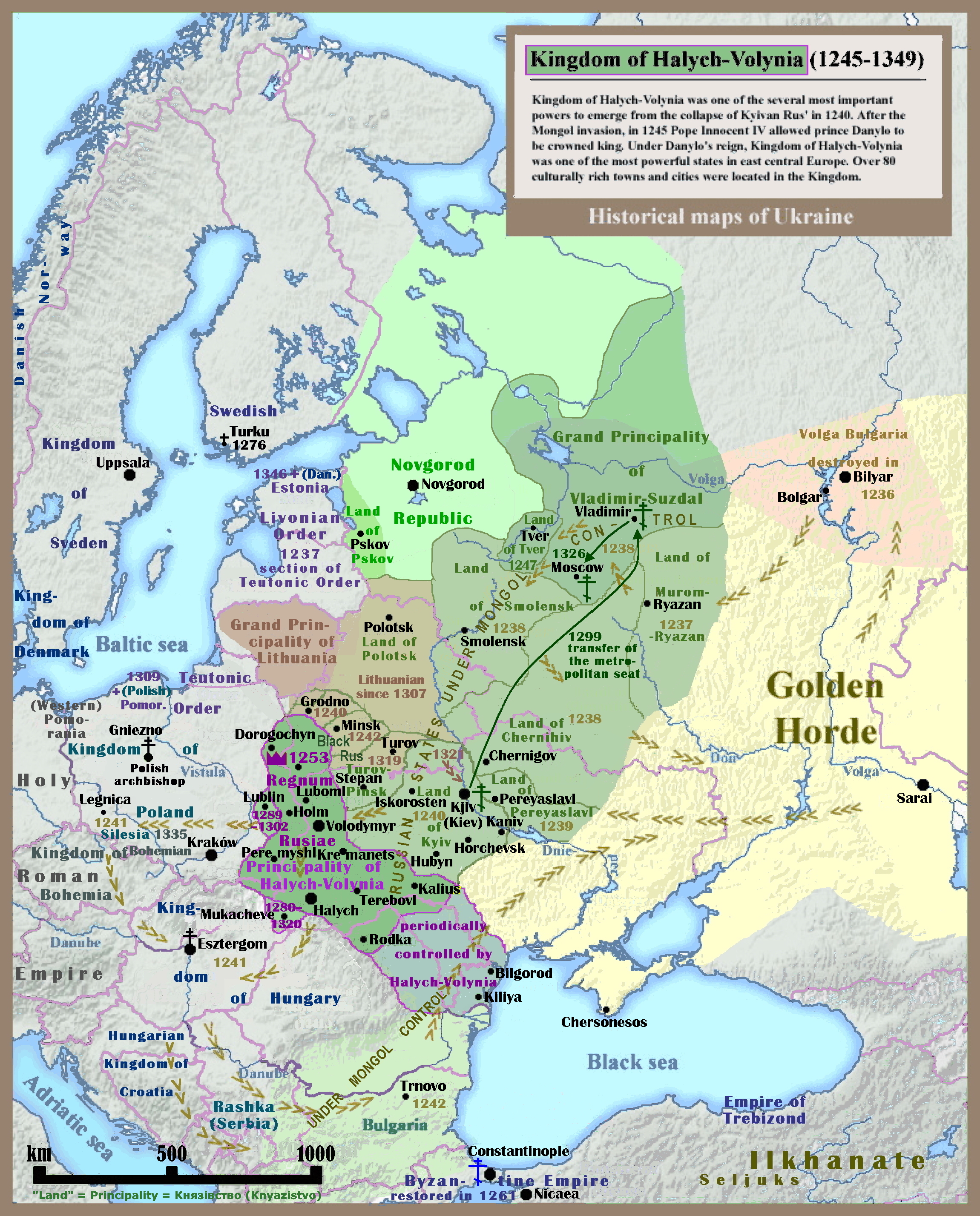 The Kingdom_of_Galicia–Volhynia or Kingdom of Halych-Volynia (1245-1349). It was one of the several most important powers to emerge from the collapse of Kievan Rus'.